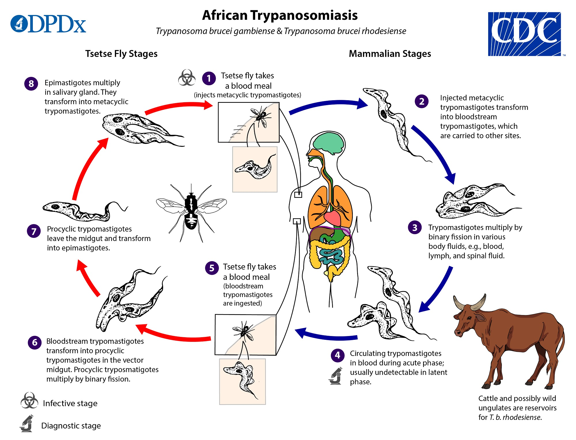 African Trypanosoma life cycle CDC. “African trypanosomes” or “Old World trypanosomes” are protozoan hemoflagellates of the genus Trypanosoma, in the subgenus Trypanozoon. Two subspecies that are morphologically indistinguishable cause distinct disease patterns in humans: T. b. gambiense, causing chronic African trypanosomiasis (“West African sleeping sickness”) and T. b. rhodesiense, causing acute African trypanosomiasis (“East African sleeping sickness”). The third subspecies T. b. brucei is a parasite primarily of cattle and occasionally other animals, and under normal conditions does not infect humans.